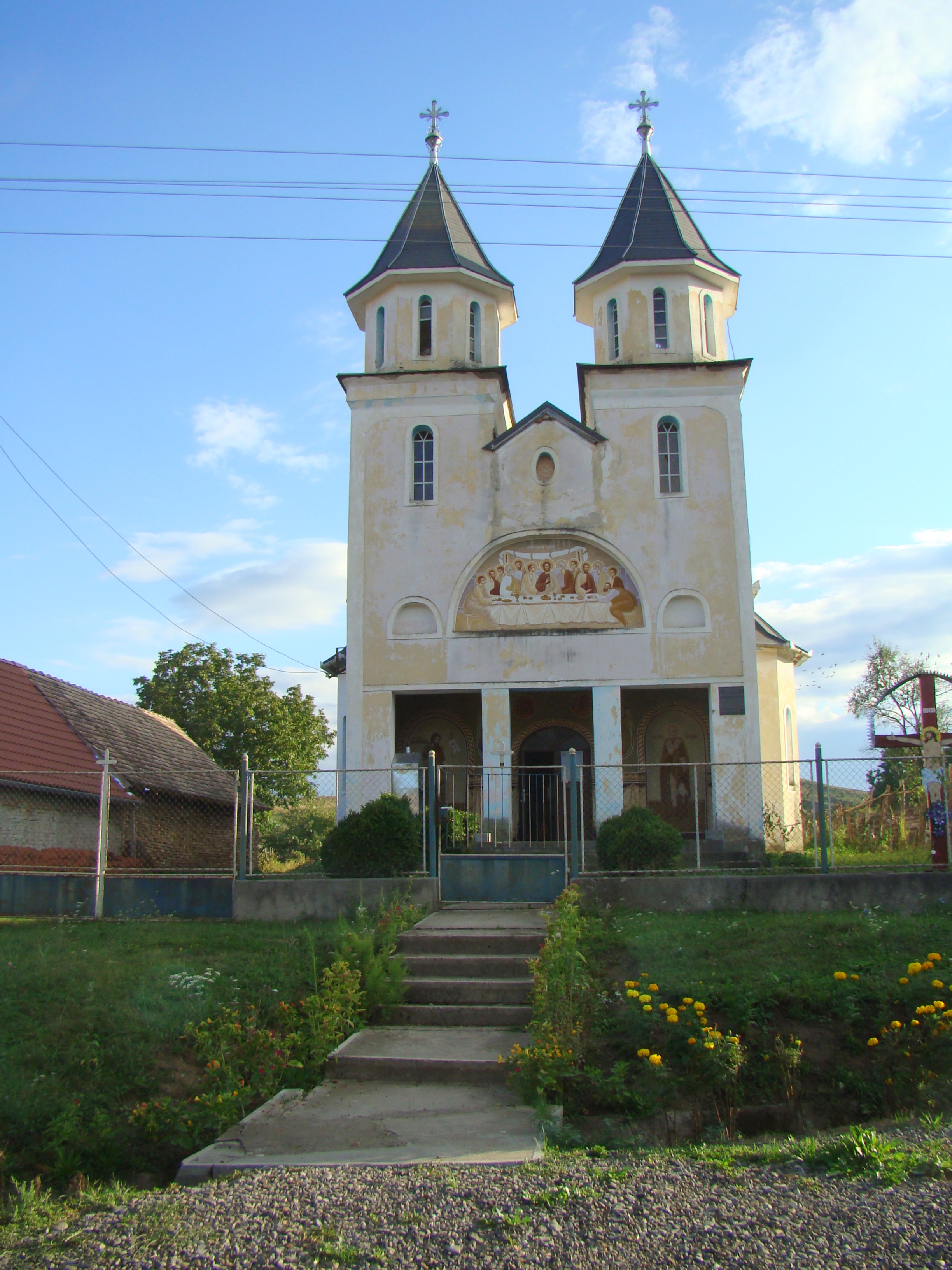 Idiciu, Mureș county, Romania